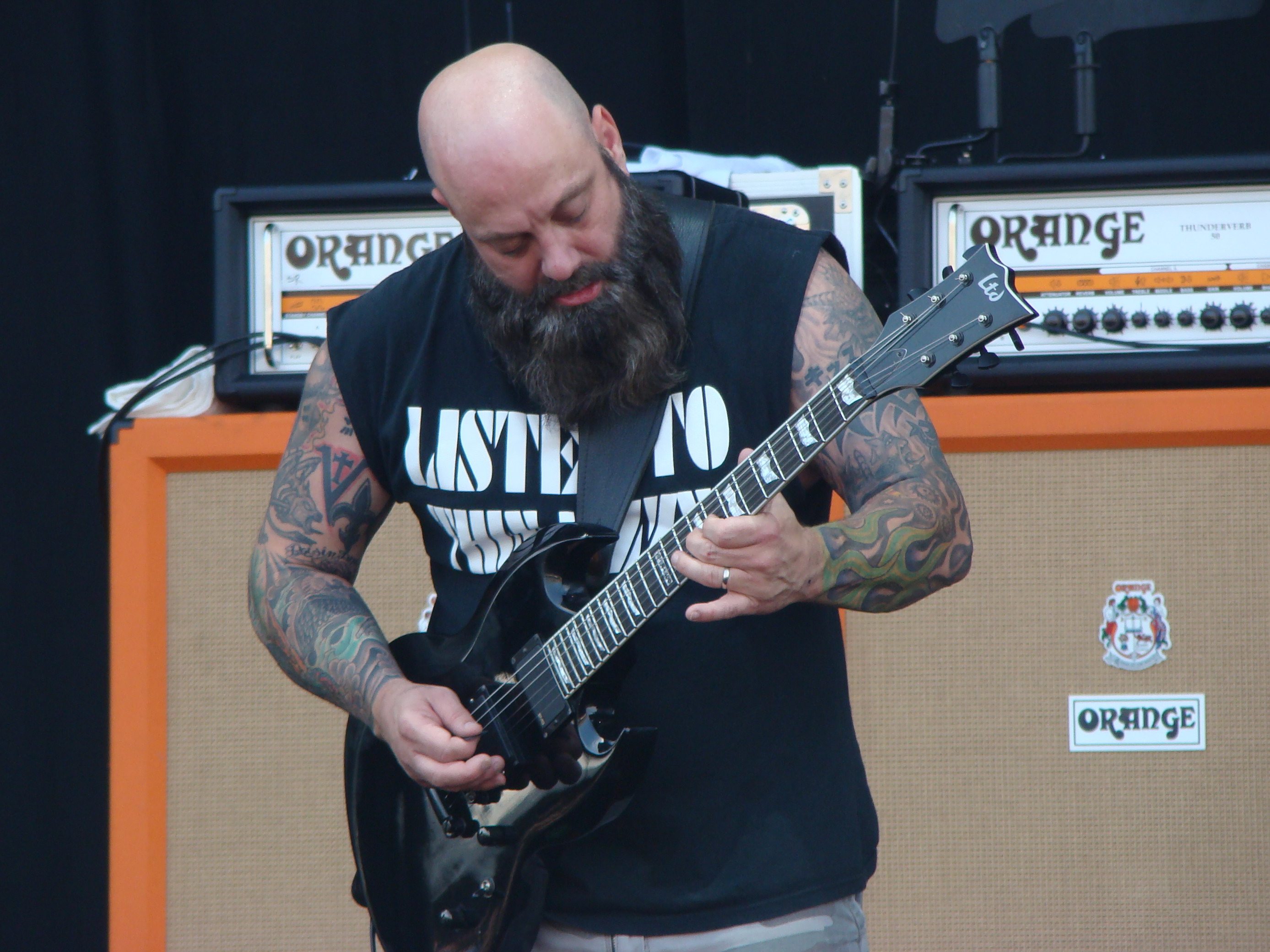 Kirk Windstein, guitarrist of Down.